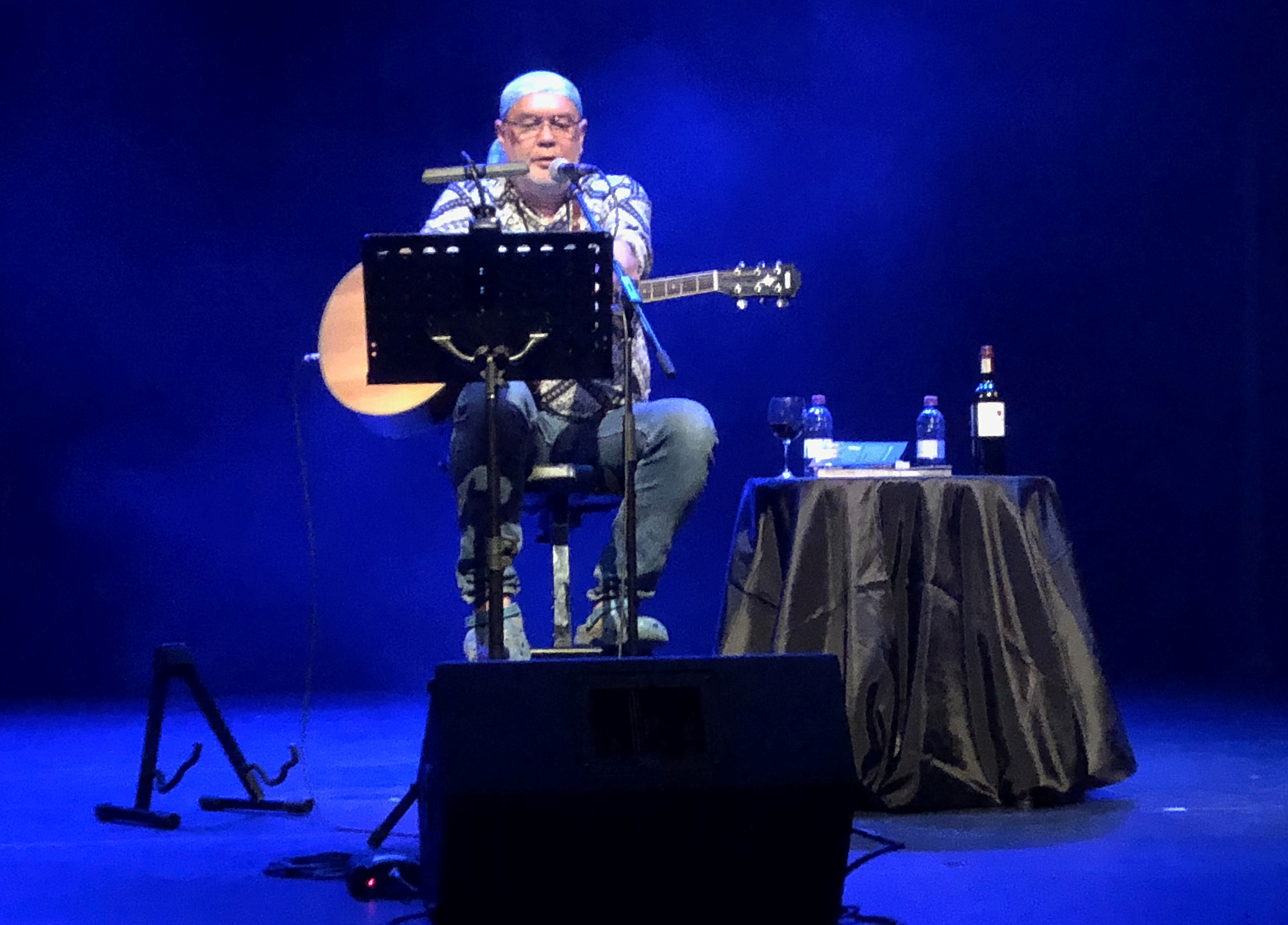 Koos Kombuis on stage in Pretoria, 2018